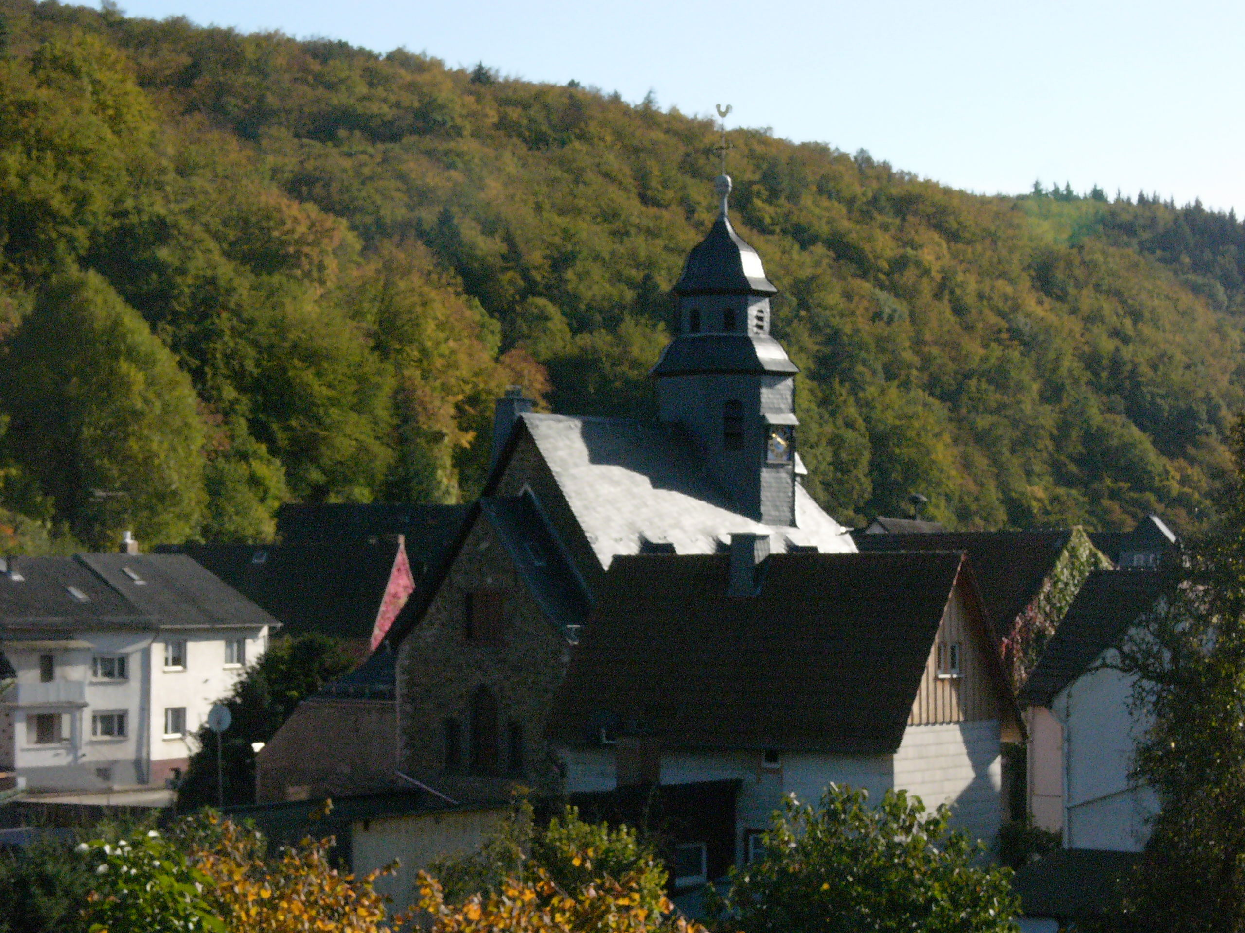 Protestant church of Braunfels-Philippstein (district Lahn-Dill, Hesse)